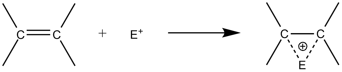 Electrophilic addition 3-center intermediate